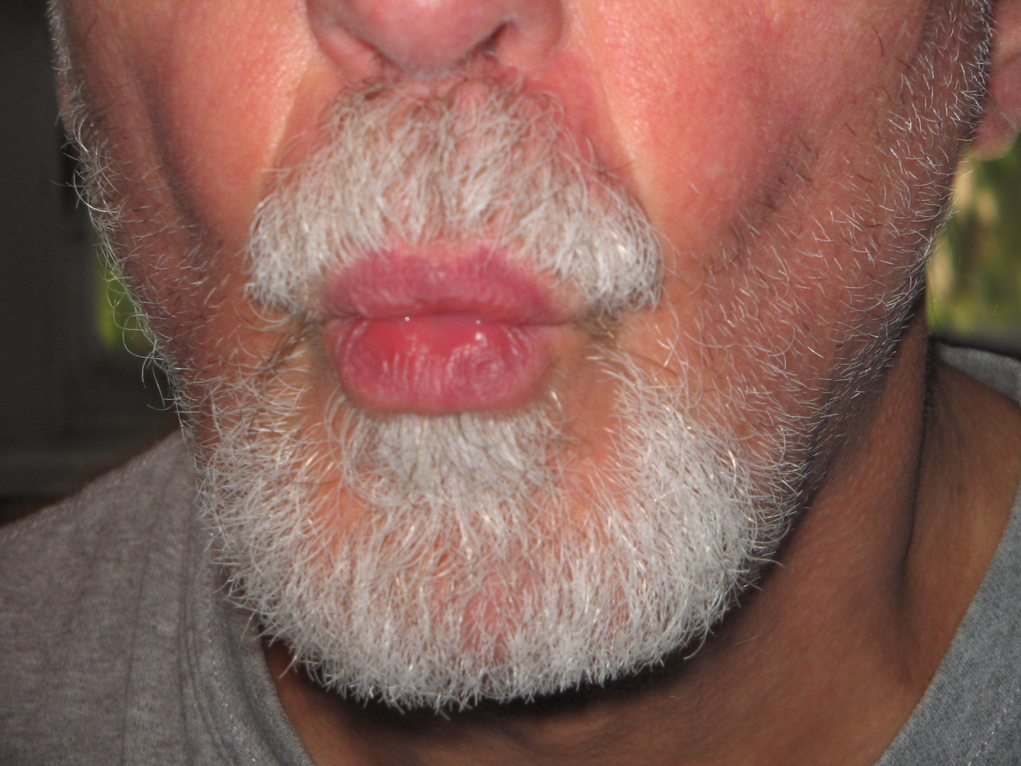 Demonstration of lip position for narrow, compressed vowel.